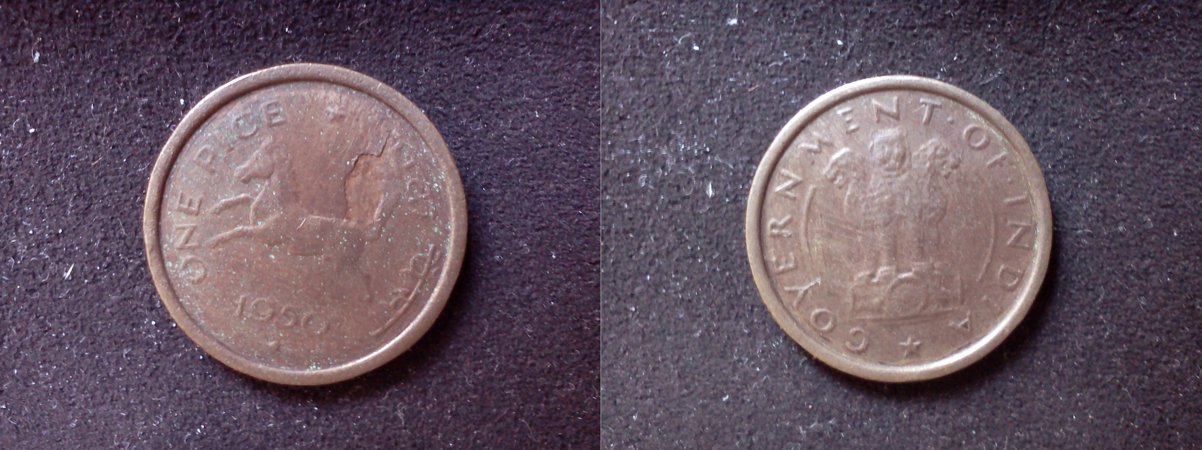 Indian one pice minted in 1950. its a bronze coin